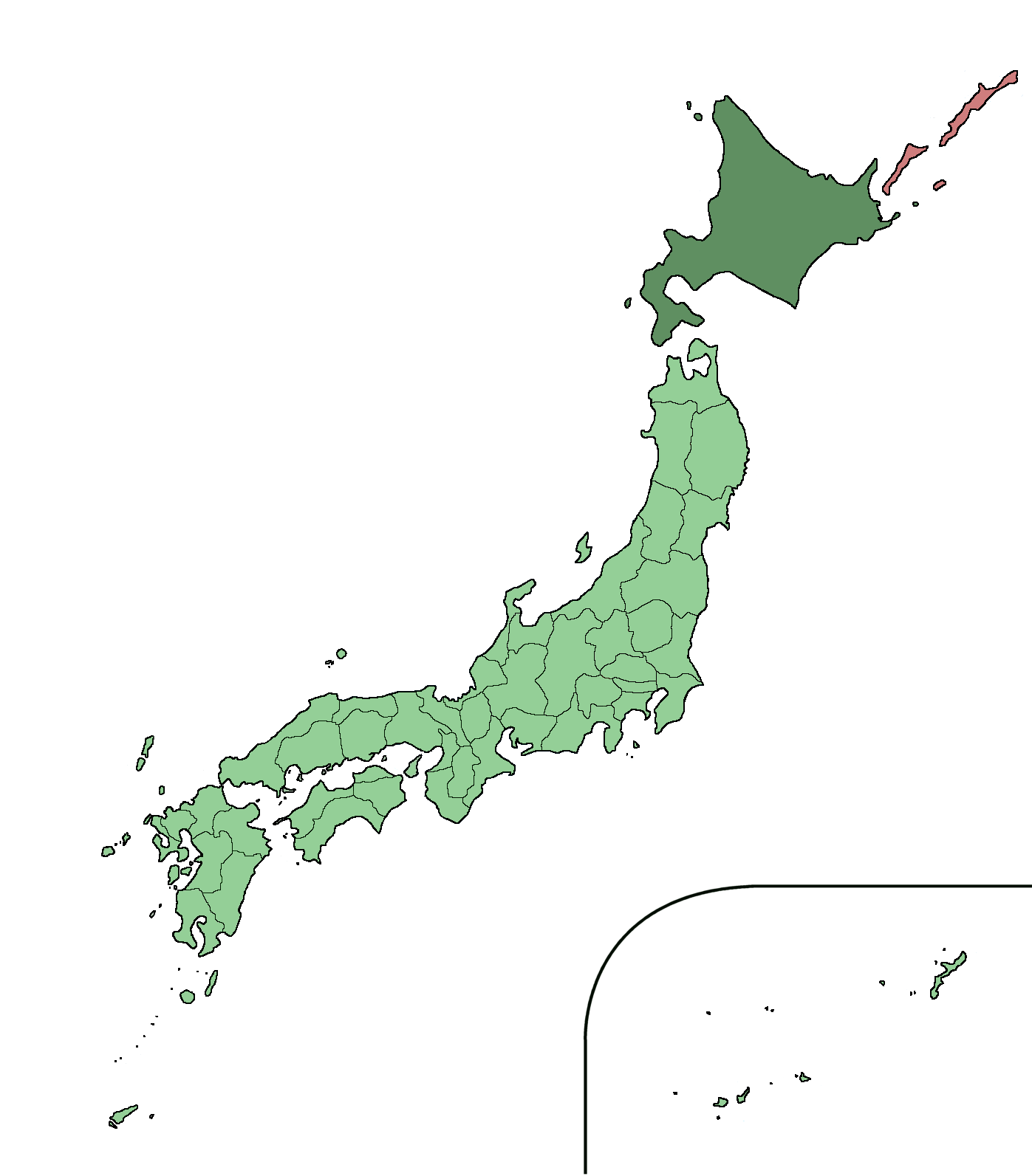 Large size map of Japan with Hokkaido highlighted, self made but originally based on a japanese mapbook.